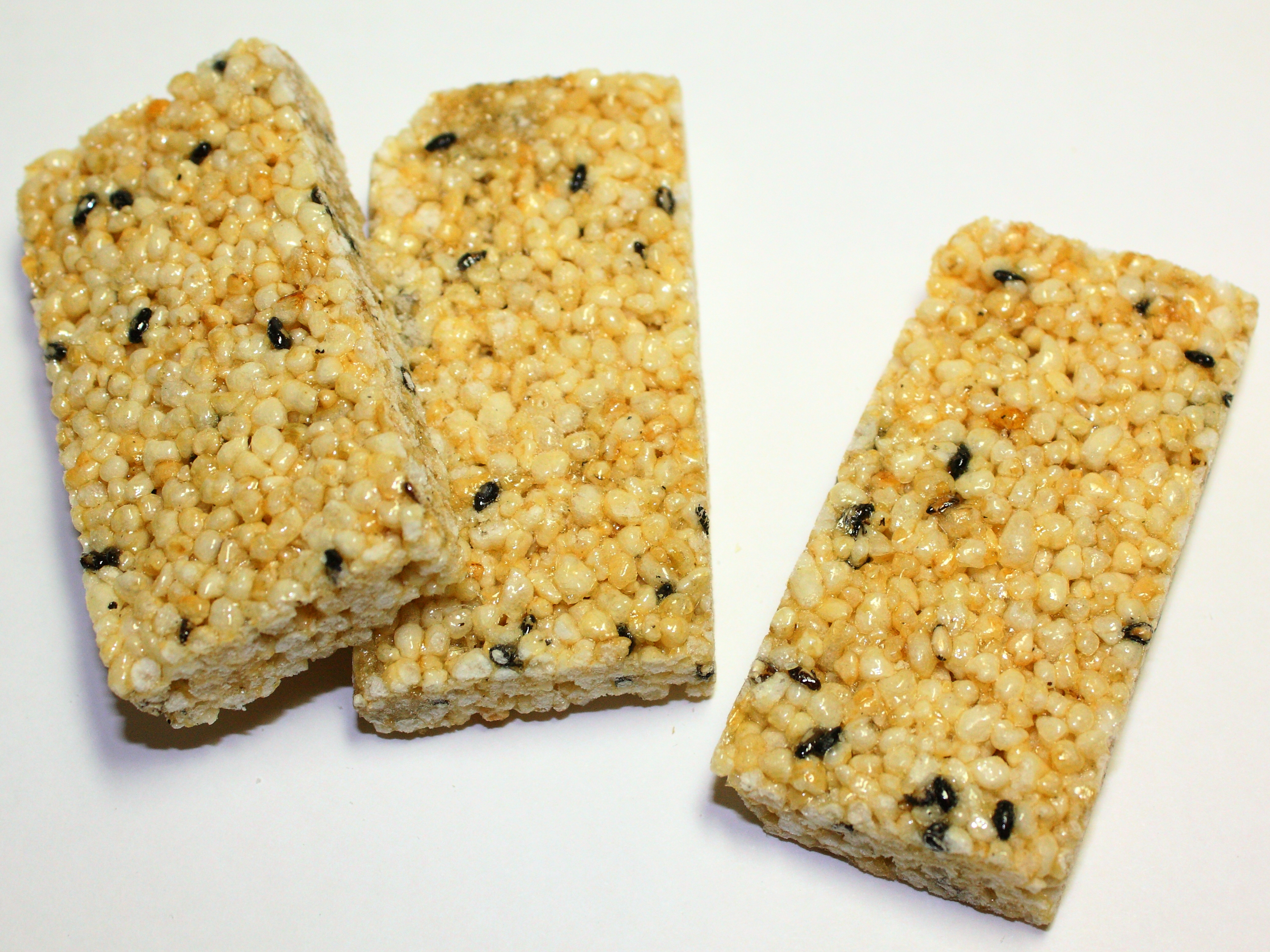 Awaokoshi